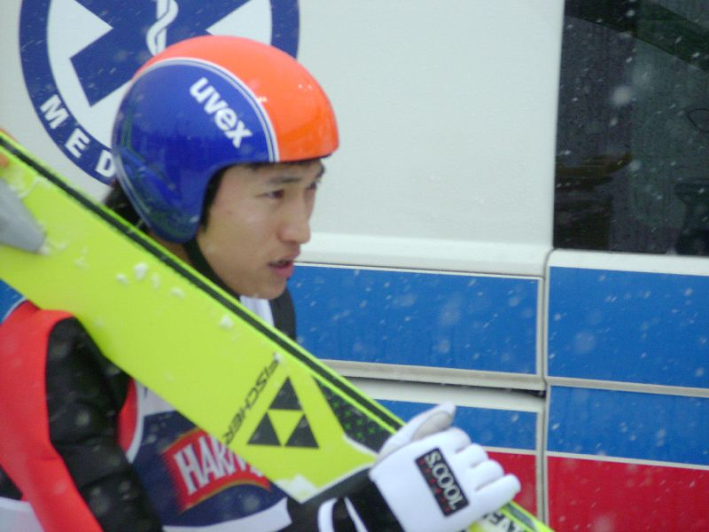 ski jumper Heung-Chul Choi from South Korea during the World Cup in Zakopane on 27-1-2008